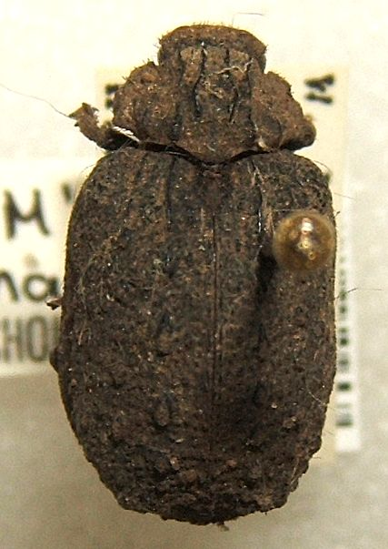 Omorgus alternans adult taken by Shawn Hanrahan at the Texas A&M University Insect Collection in College Station, Texas. Cropped version of Omorgus alternans sjh.jpg.